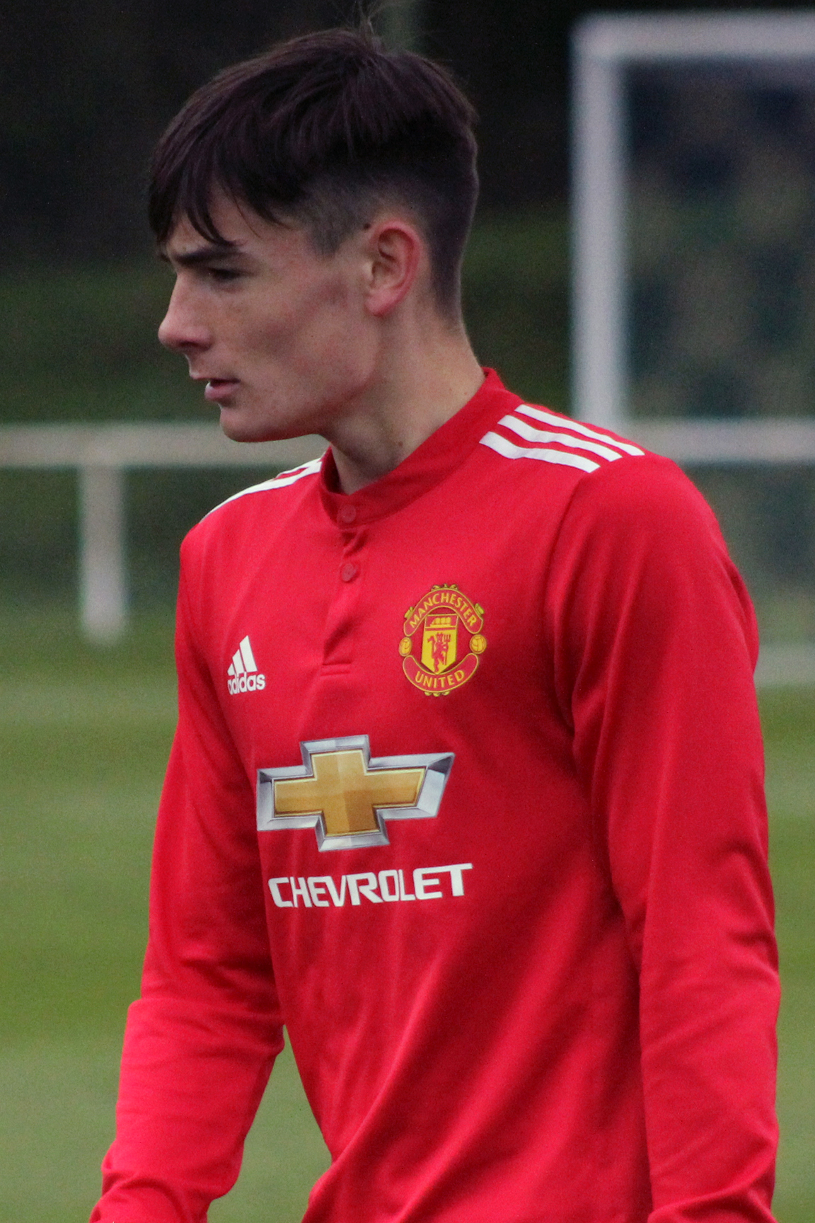 Blackburn Rovers U18s 1-4 Manchester United U18s U18 Premier League North Saturday 18 November Blackburn Rovers Training Centre